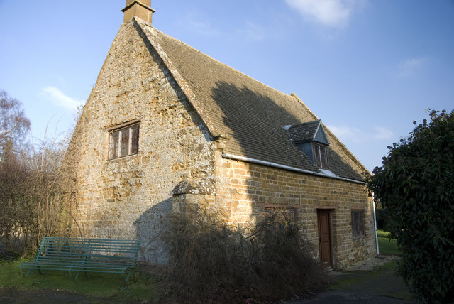 Former Quaker Meeting House, West Adderbury, Oxfordshire